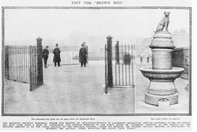 The spot on which the Brown Dog statue had stood in Battersea, London; photograph taken the morning it disappeared. See Brown Dog affair.